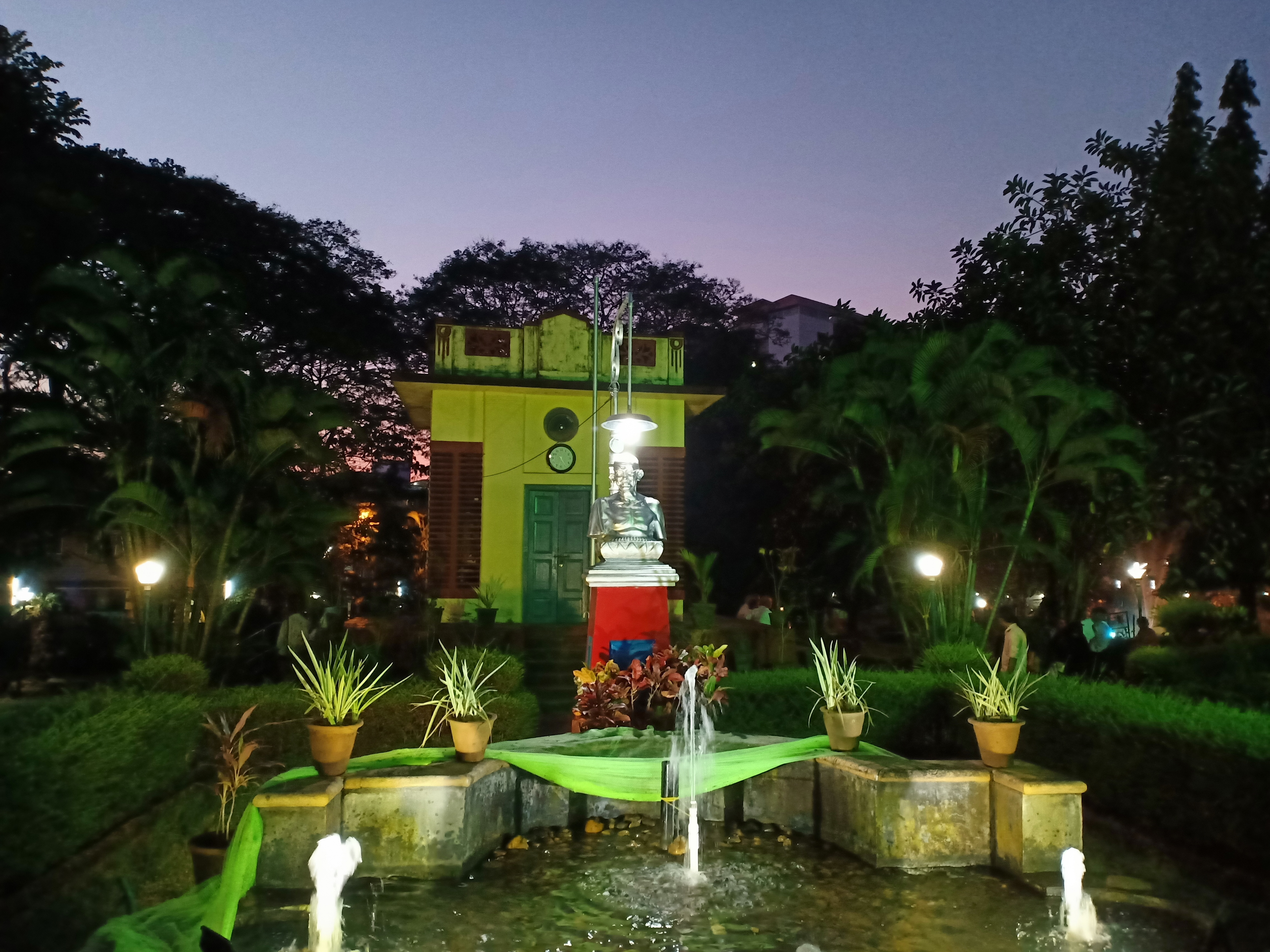 At the entrance of Mahatma Gandhi Park at Mannagudda in Mangalore - 1